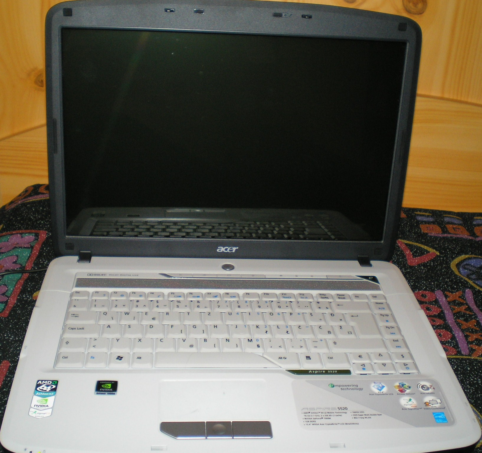 Acer Aspire 5520 laptop computer.